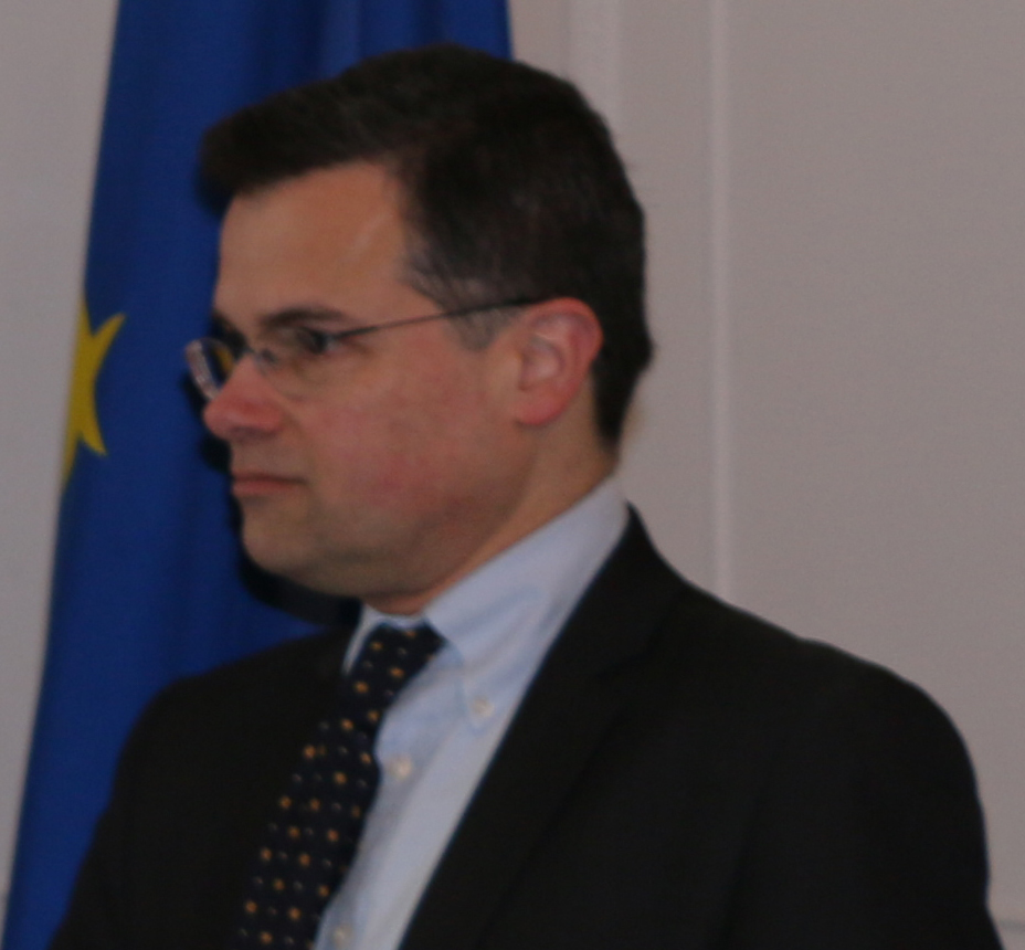 Oliver Kamm on the occasion of mother Anthea Bell receiving Cross of the Order of Merit of the Federal Republic of Germany, 29 January 2015